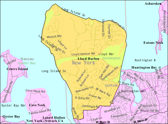 U.S. Census 2000 reference map for Lloyd Harbor It's Lloyd Harbor, NOT Lloyd's